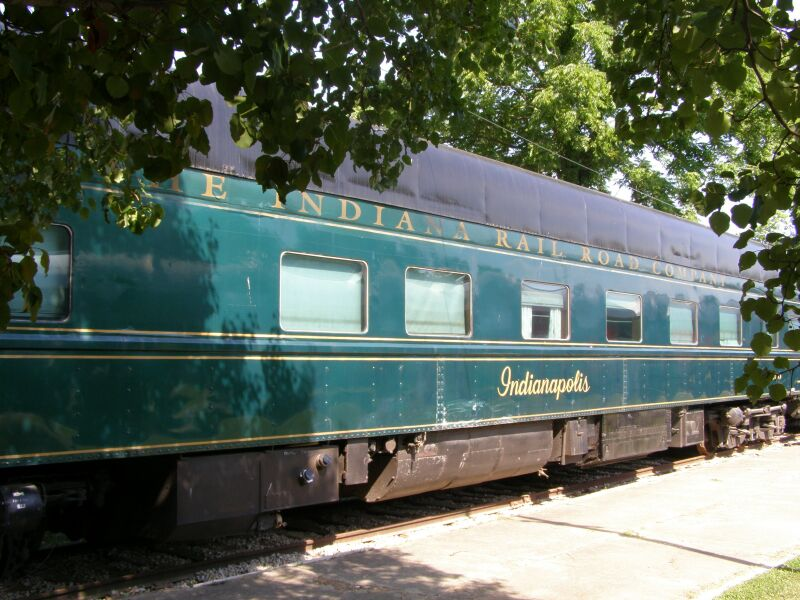 Indianapolis Car of the Indiana Railway (Pullman)